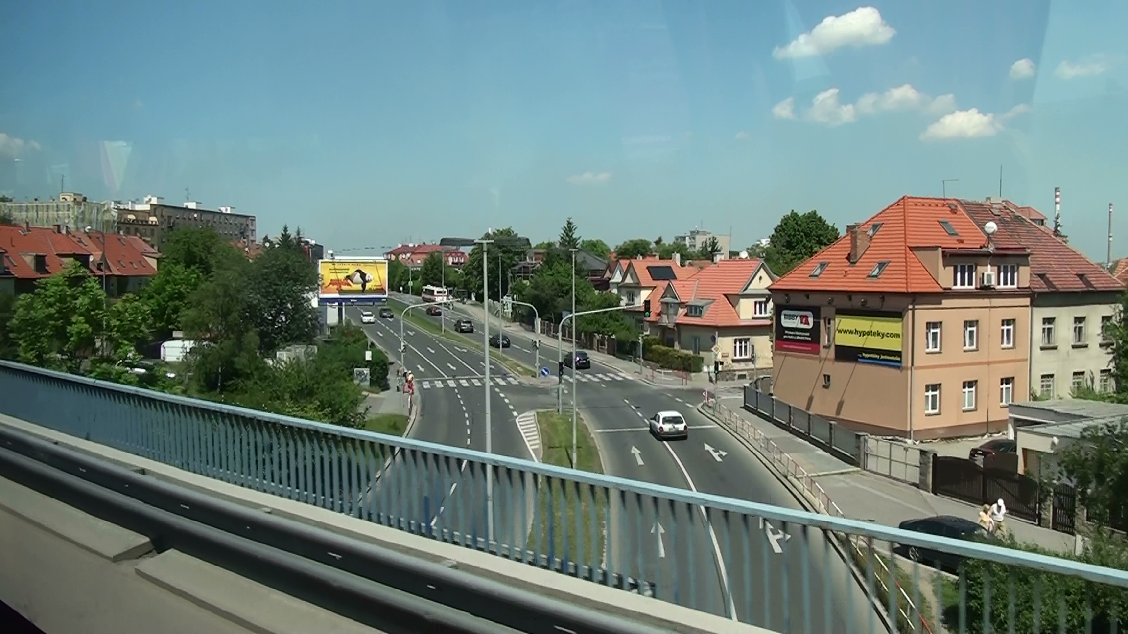 Prague 4, Czech Republic